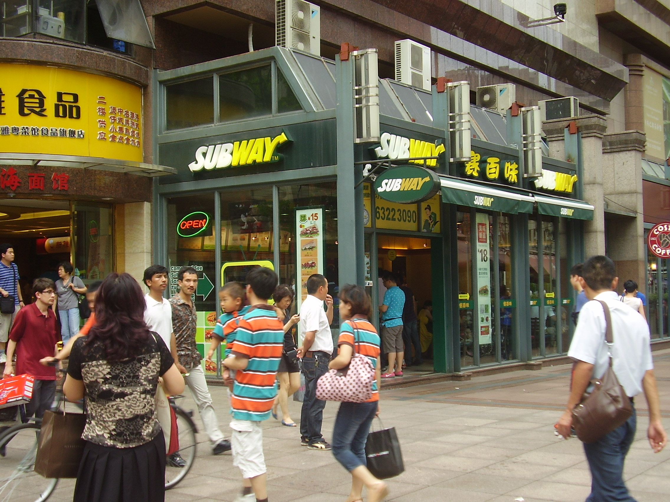 Subway in Shanghai